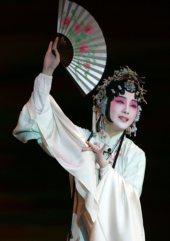 Kunqu performance at the Peking University